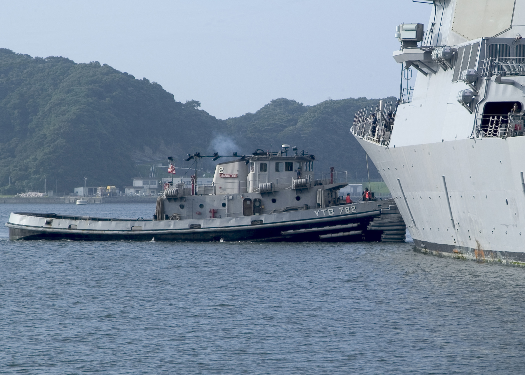 Manistee (YTB-782) assists the Arleigh Burke-class guided-missile destroyer USS Curtis Wilbur (DDG-54) as she departs Fleet Activities Yokosuka, Japan (CFAY), 1 August 2007. US Navy photo # 070801-N-0483B-001 August 1 2007 YOKOSUKA, Japan (July 10, 2007) by MCSN Kari R. Bergman.